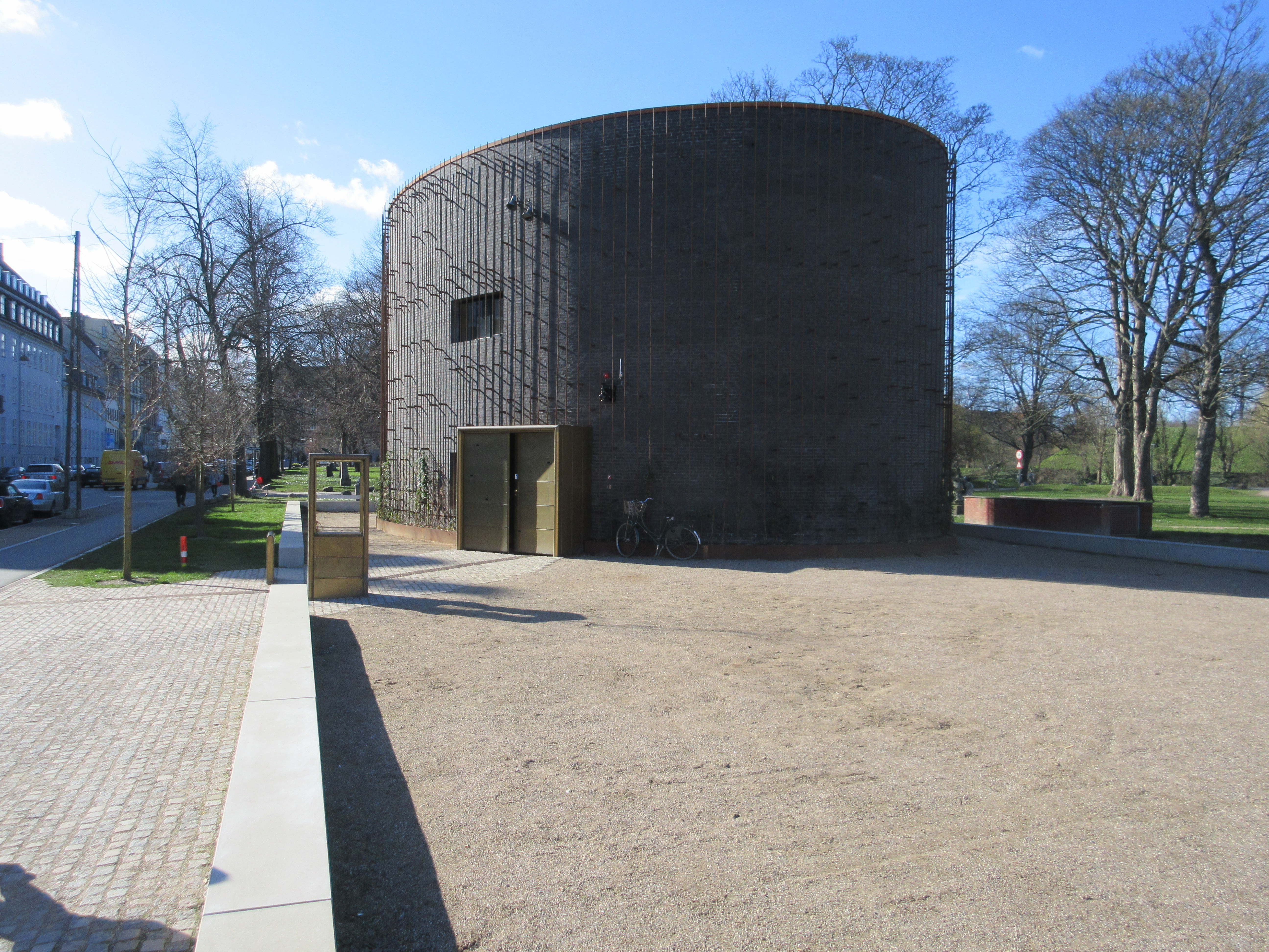 Frihedsmuseet in Copenhagen, Denmark